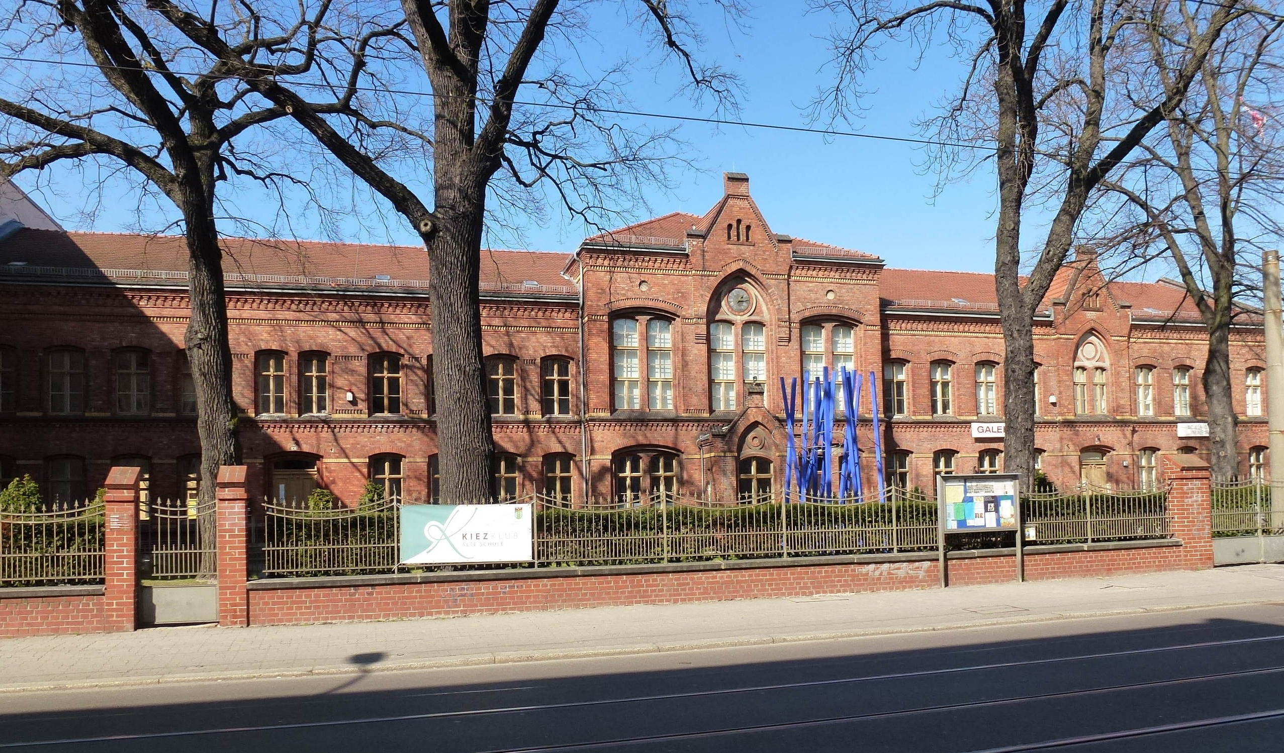 Berlin-Adlershof Dörpfeldstraße